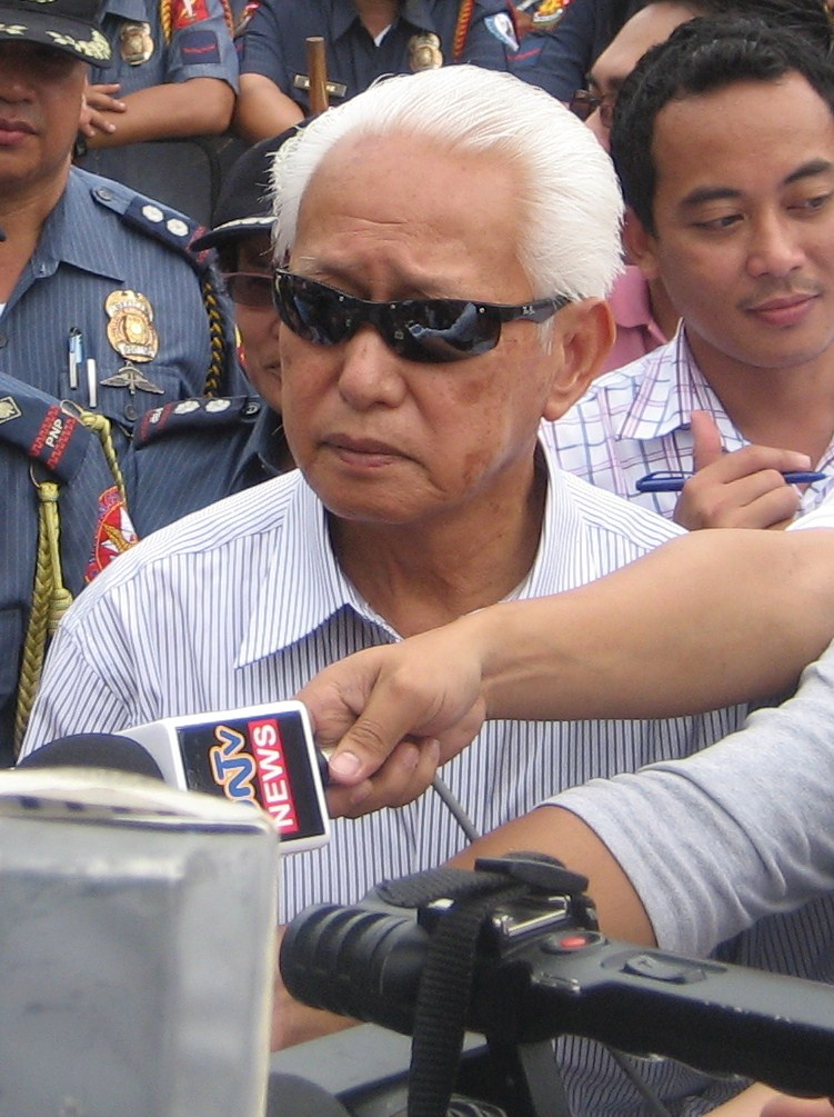 Major Lim talking to reporters in Mendiola Bridge at Manila